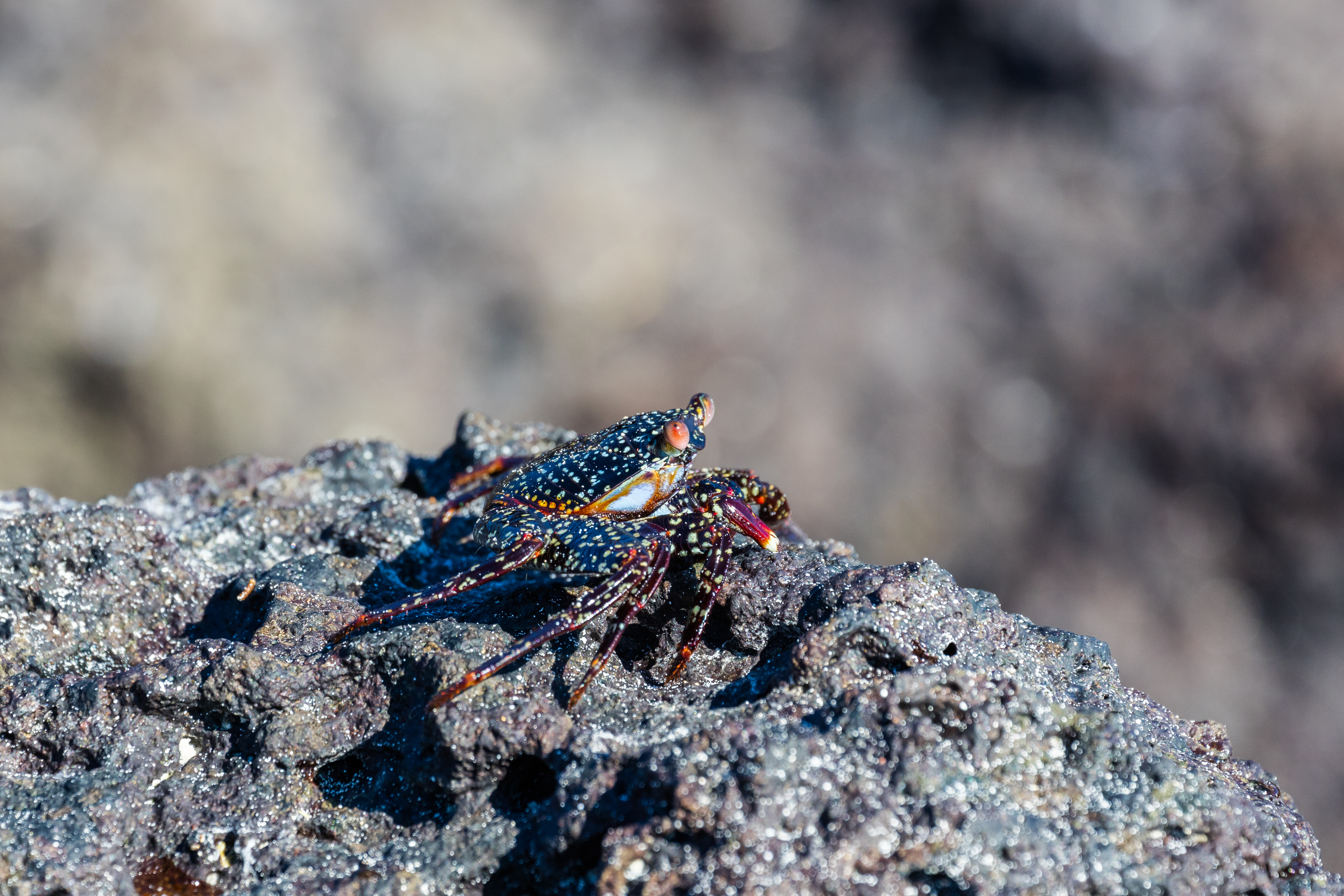 Juvenile exemplar of Red rock crab (Grapsus grapsus), Cerro Brujo, San Cristobal Island, Galapagos Islands, Ecuador